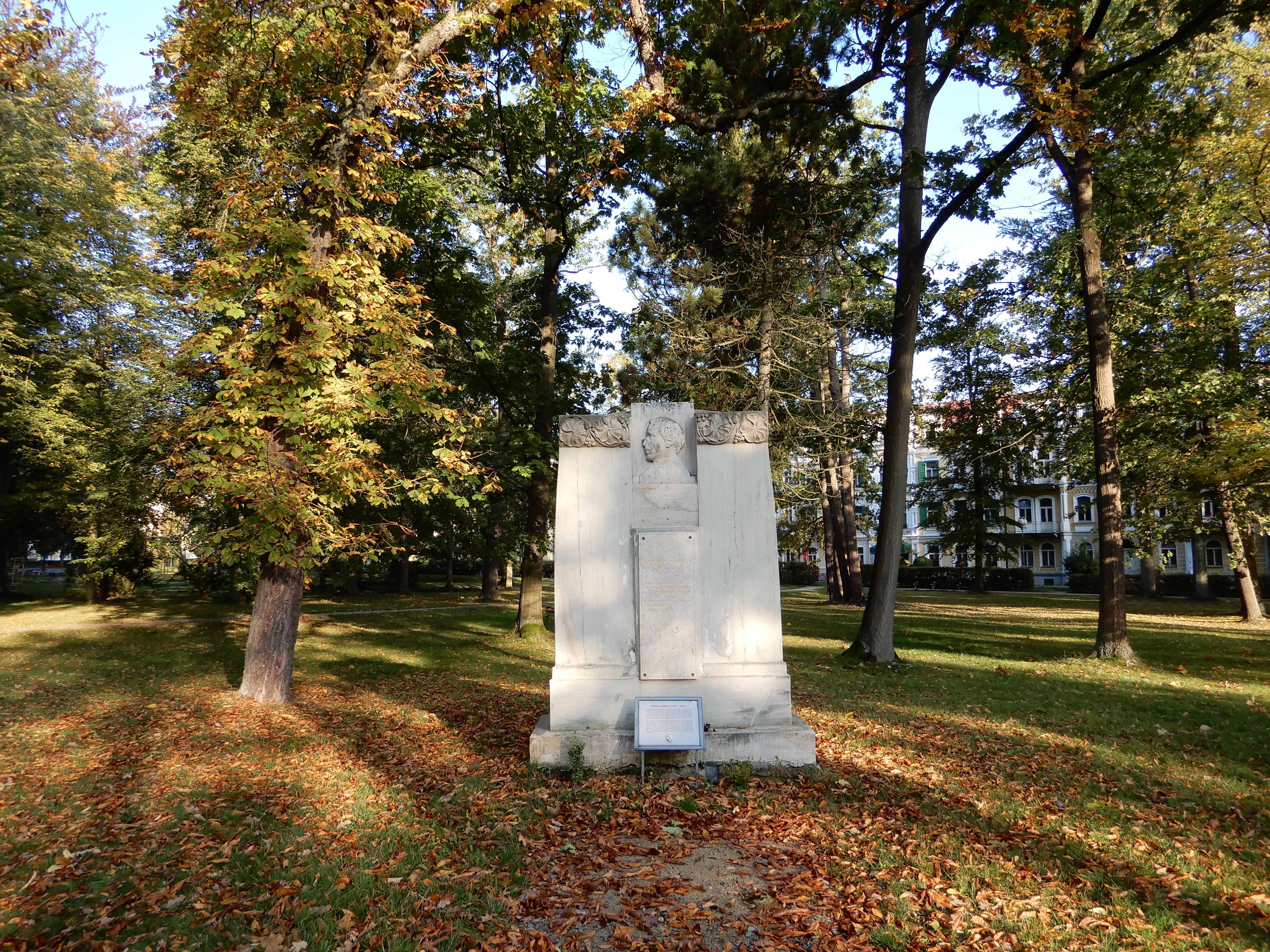 Wilhelm Müller memorial in Františkovy Lázně; erected by Adolph Mayerl 1910, destroyed 19̟45, renewed 2013